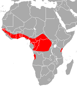 Giant Roundleaf Bat (Hipposideros gigas) range